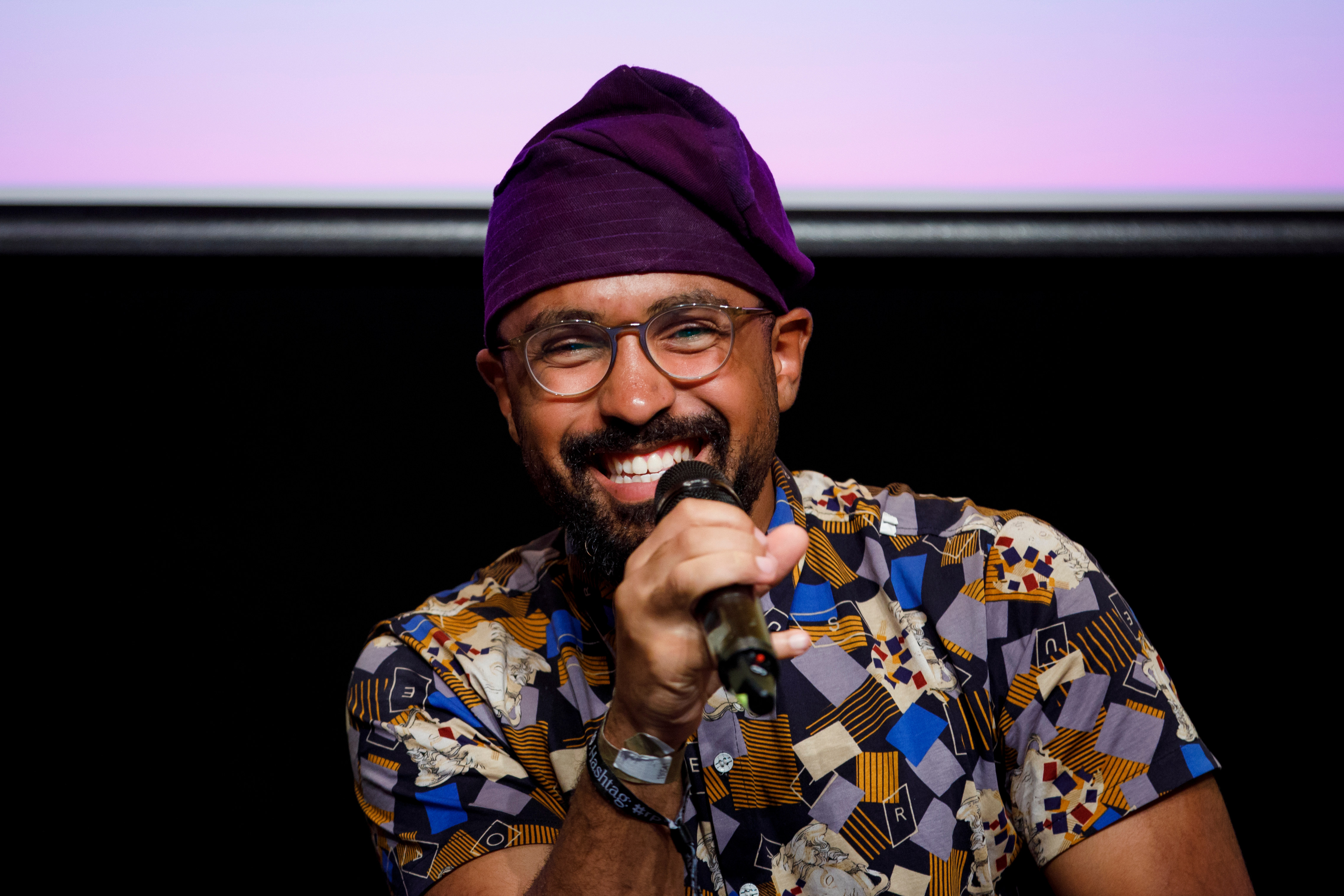 Session: Ein Jahr #MeTwo - Was los? Vorbote eines Civil Right Movements! Speaker: Farhad Dilmaghani, Marijana Bogojevic, Malcolm Ohanwe, Juliane Metzker, Ali Can